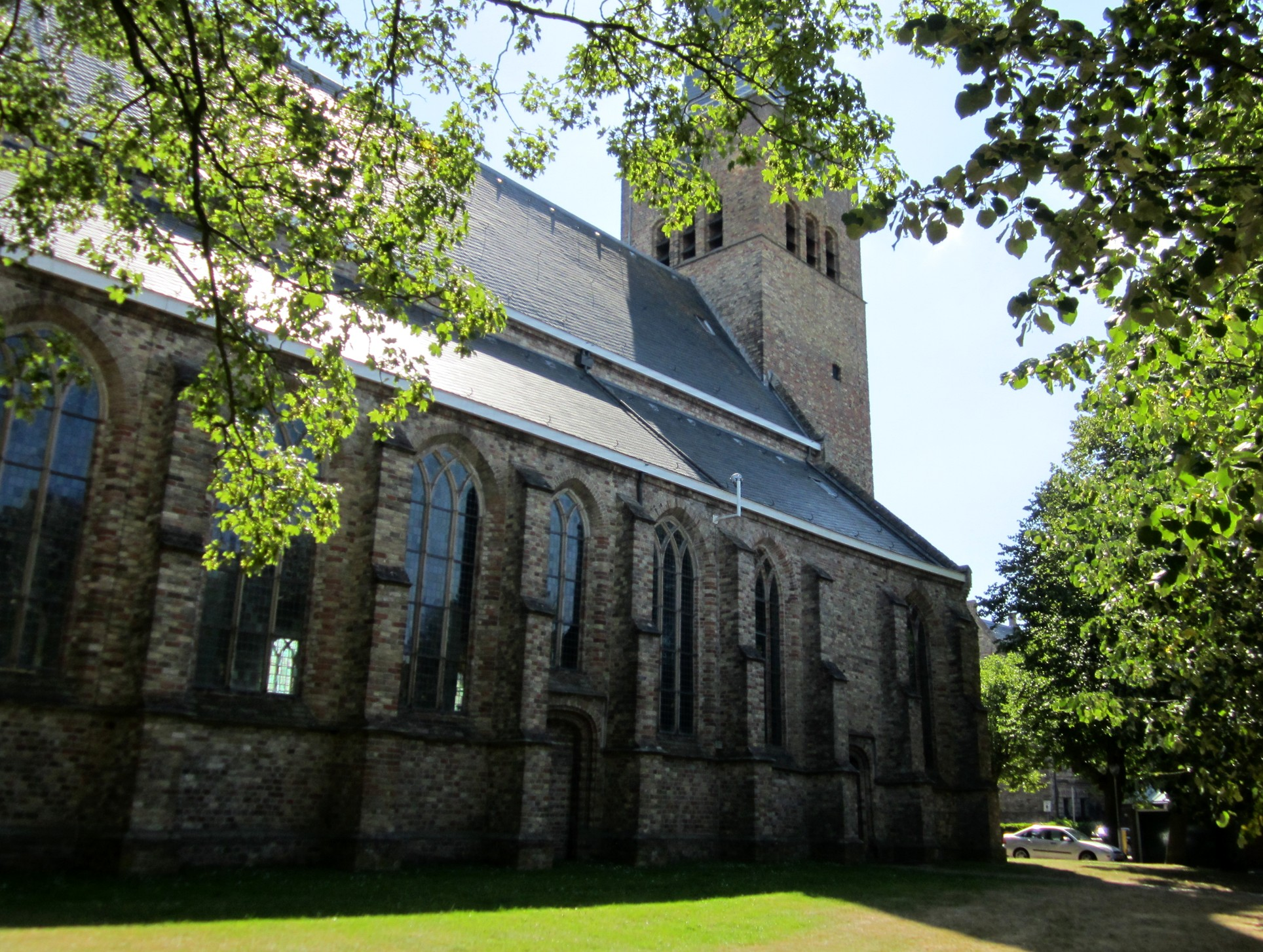 The Martinikerk/Martinytsjerke in Franeker/Frjentsjer, Friesland, the Netherlands, as seen from the north side.